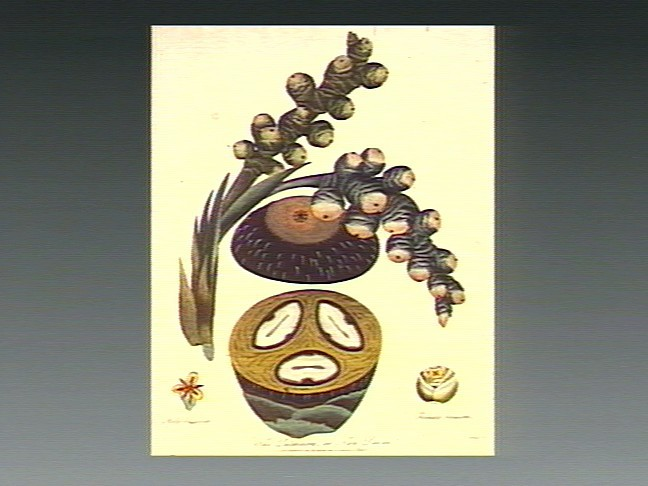 Palmyra palm (Borassus flabellifer): fruiting stem, nut and flowers. Coloured etching by J. Pass, c. 1799, after J. Ihle. Iconographic Collections Keywords: Johann-Eberhard Ihle; John Wilkes; John Pass